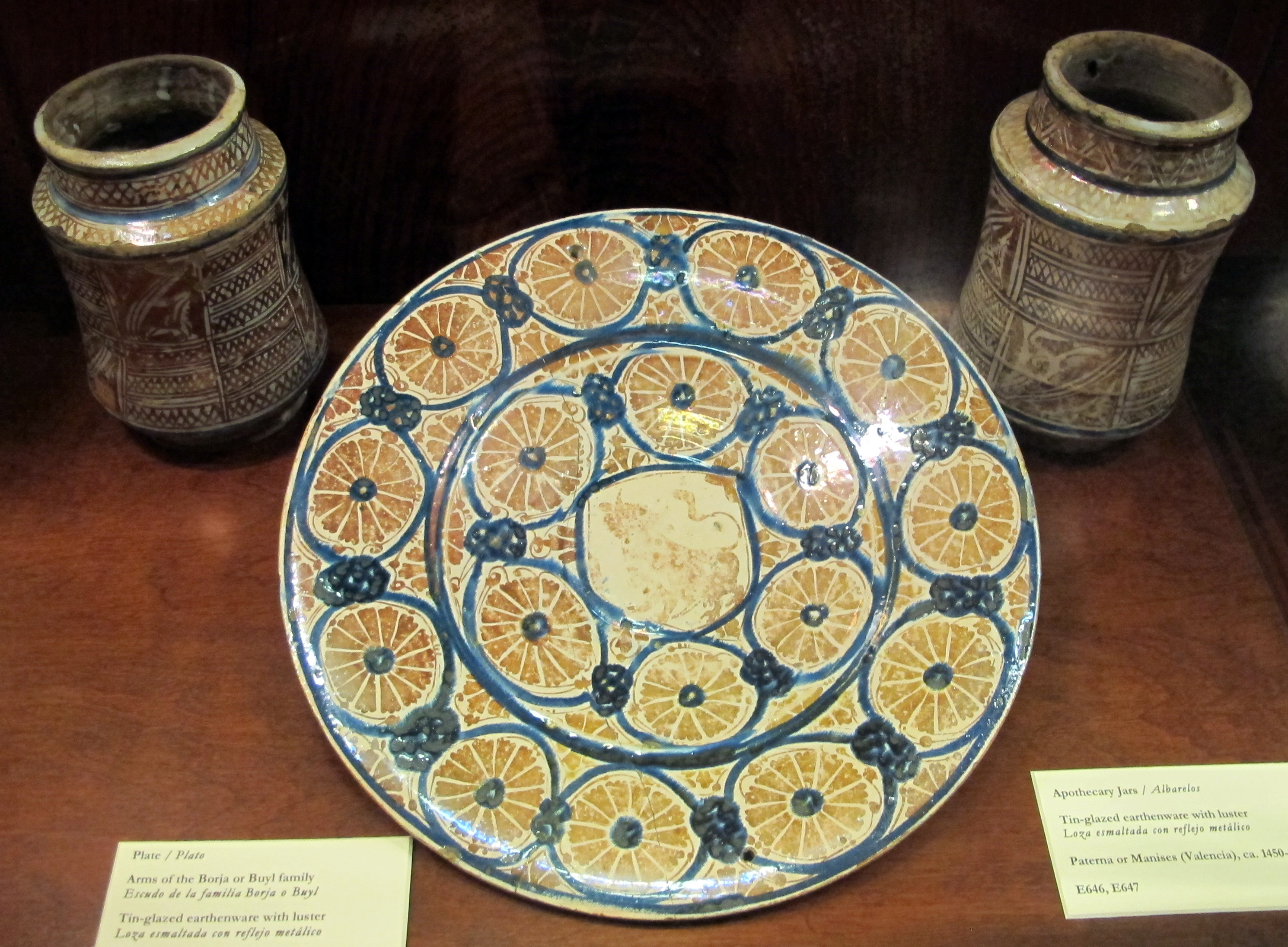 Spanish maiolica in the Hispanic Society of America